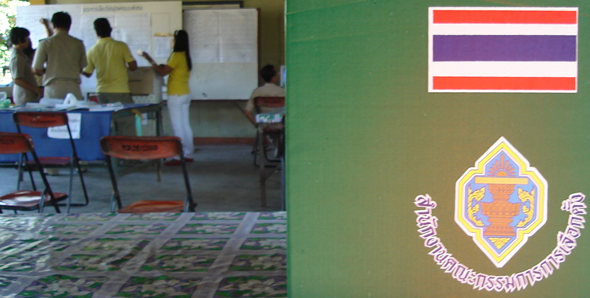 Polling station in Ban Khung Taphao, Khung Taphao subdistrict, Mueang Uttaradit, Uttaradit Province, Thailand. on December 23, 2007. (Thai general election, 2007)